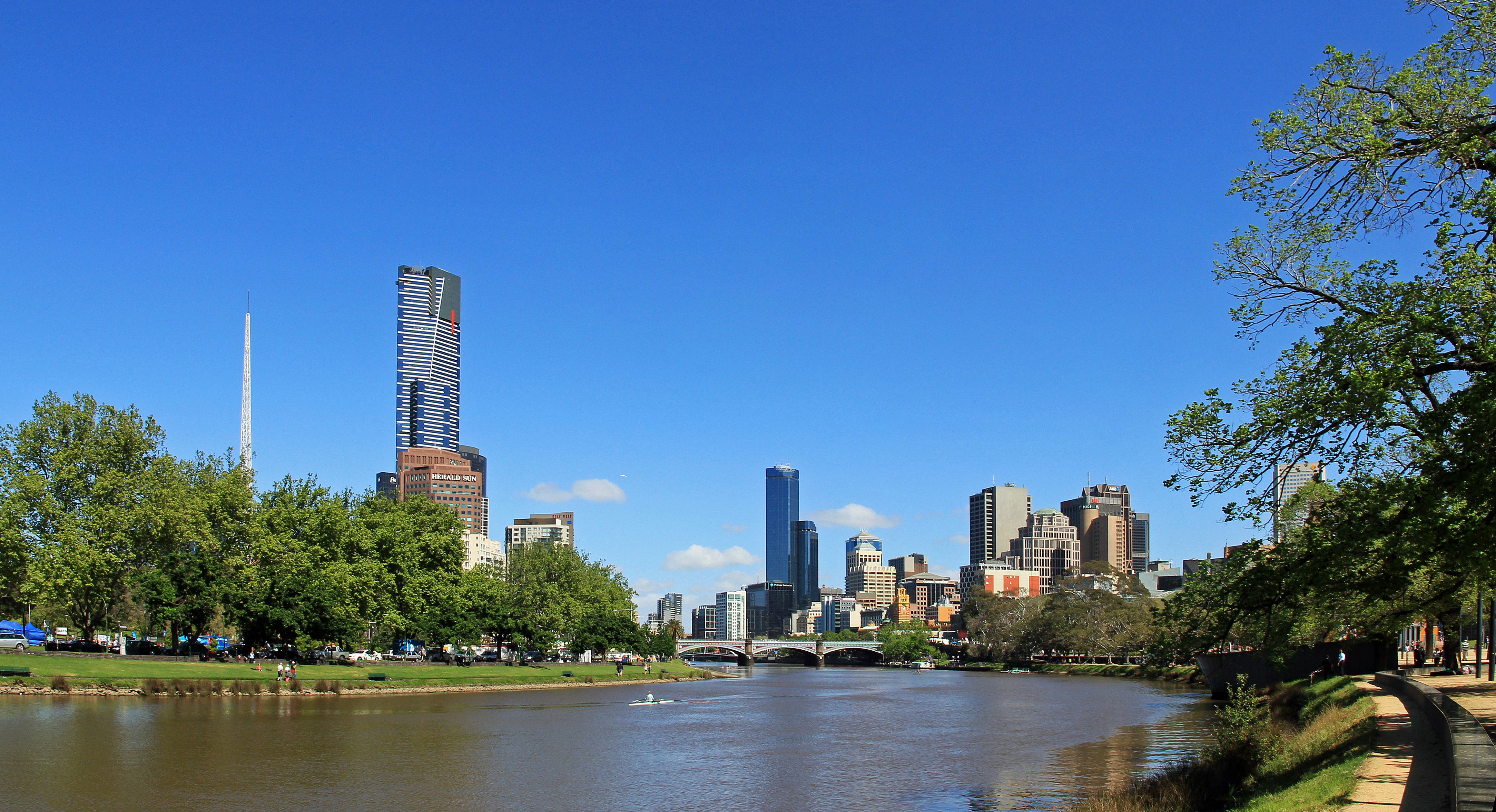 Yarra River & Melbourne City Skyline View at Alexandra Gardens